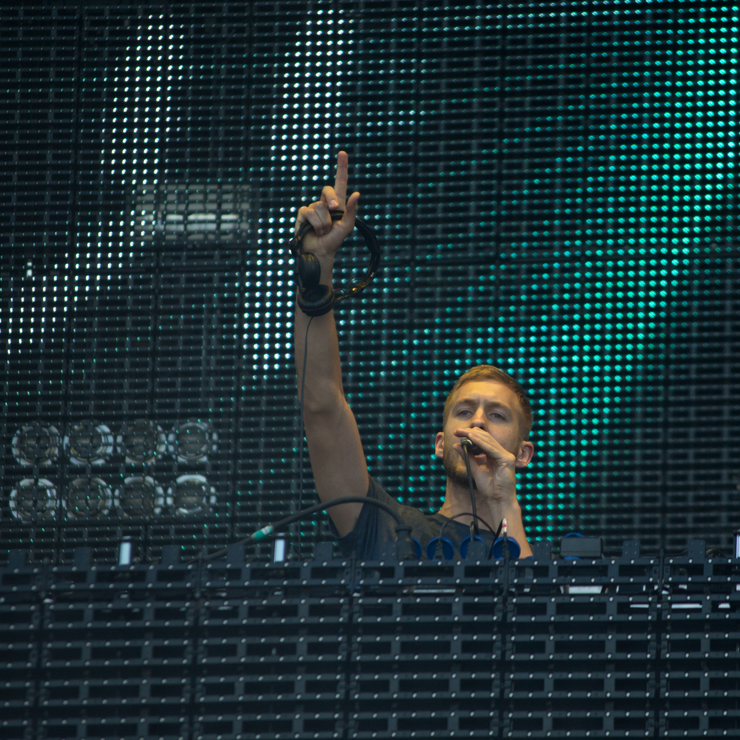 Calvin Harris in Rock in Rio Madrid 2012.